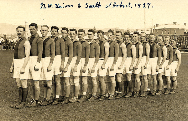 North West Football Union representative team